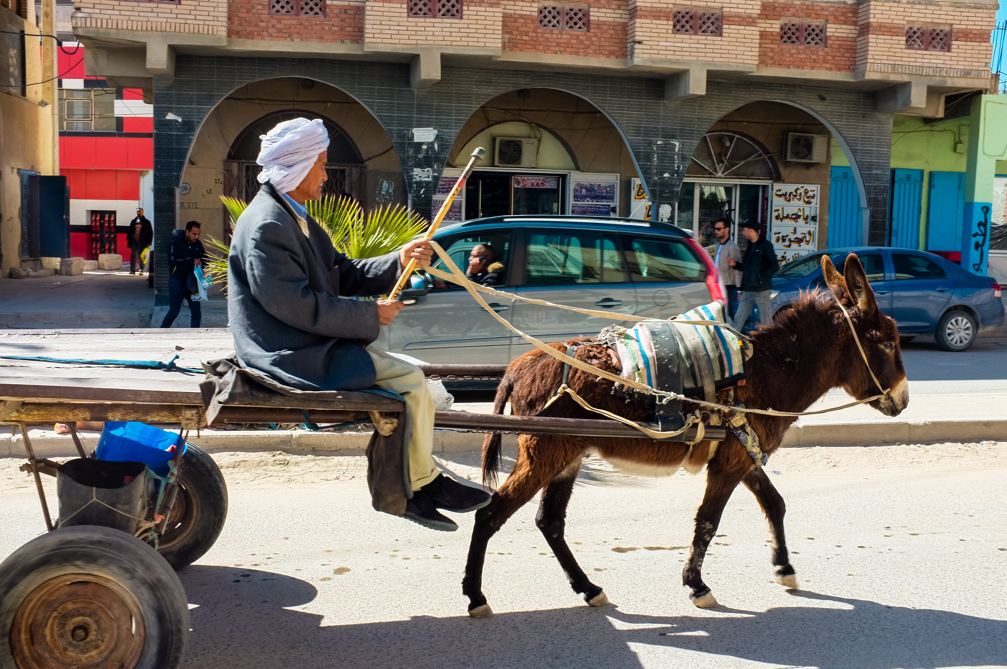 This is an image with the theme "Africa on the Move or Transport" from: Algeria